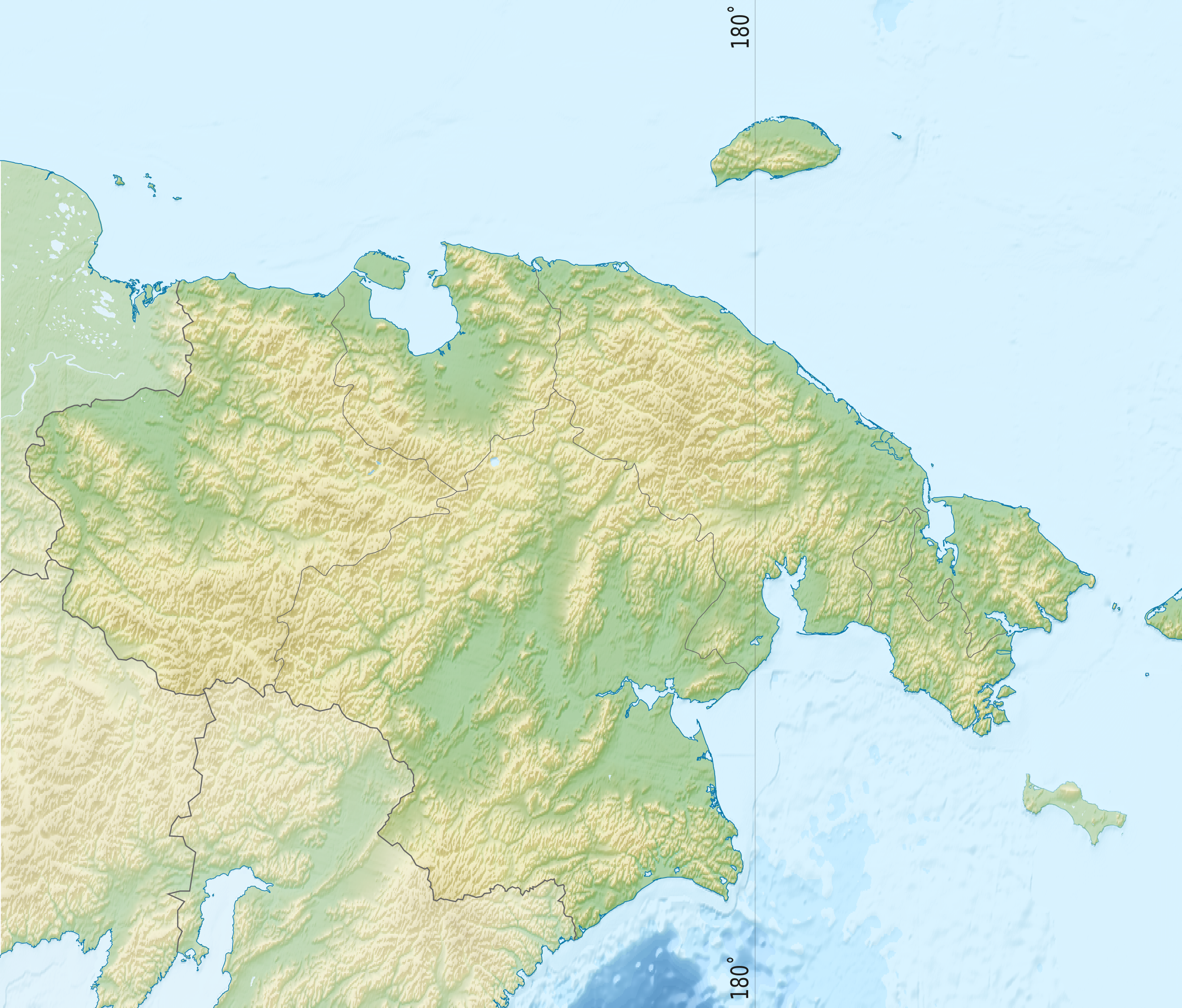 Chukotka_Autonomous_Okrug_relief_location_map Equirectangular projection, N/S stretching 256 %. True scale parallel: 67°00' N. Geographic limits of the map: N: 61.0° N S: 73.0° N W: 157.0° E E: 193.0° E